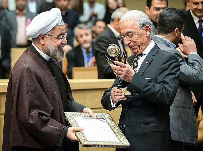 Majid Samii - 2014